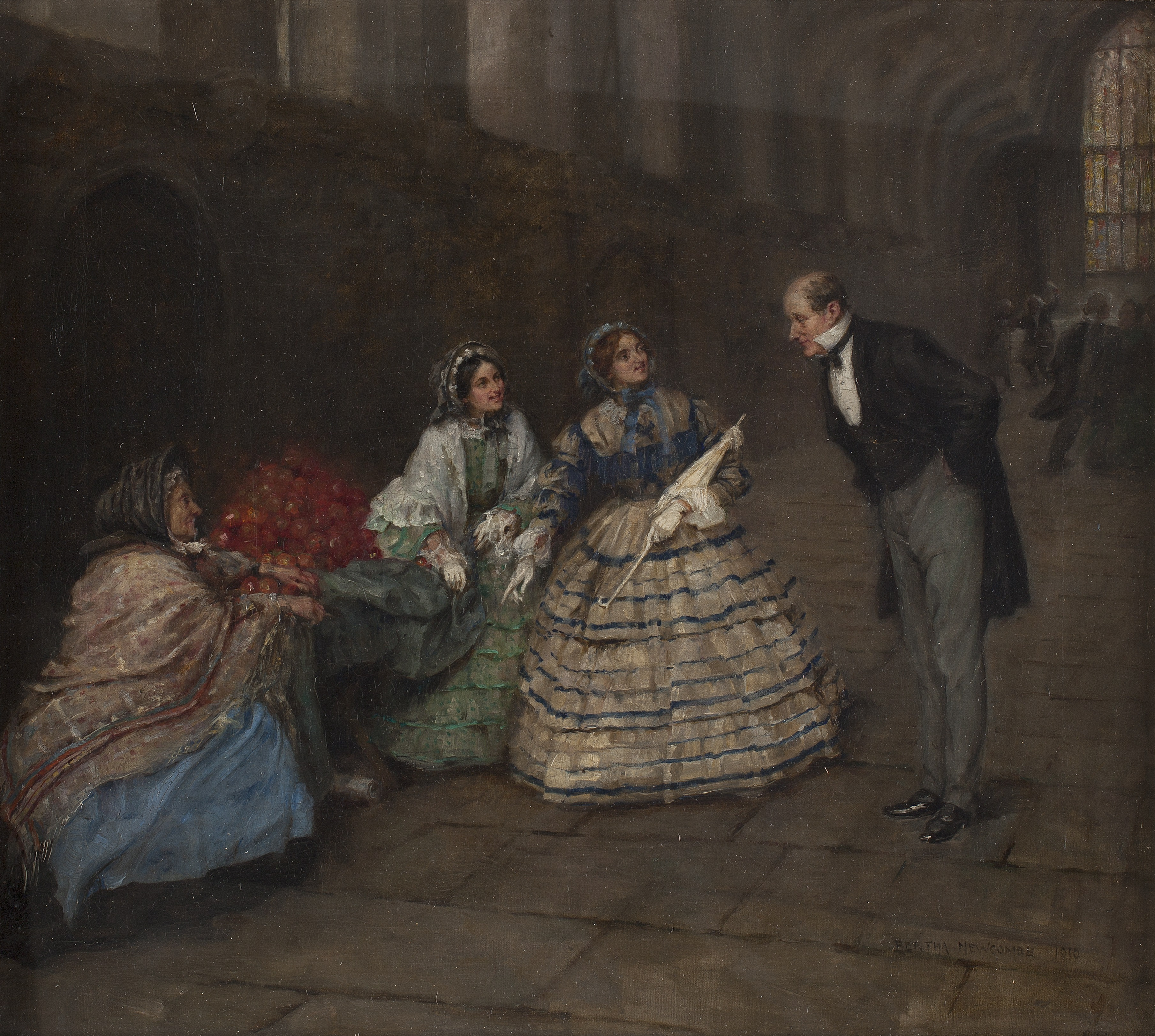 Reproduction of an oil painting by Miss Bertha Newcombe 1910 representing Miss Emily Davies and Elizabeth Garrett hiding first women's suffrage petition under an apple-woman's stall in Westminster Hall until John Stuart Mill came to collect it.